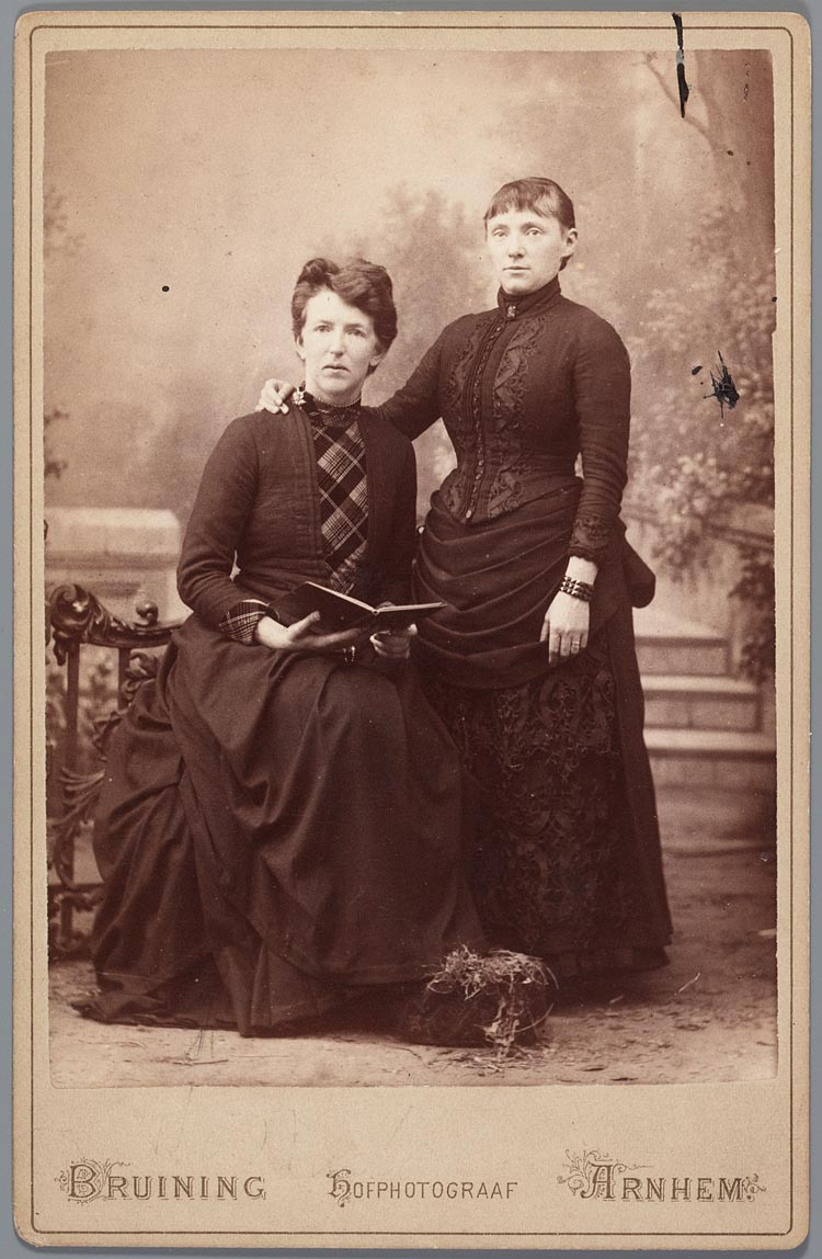 Titia van der Tuuk and ms. X (possibly her mother, Petronella Lenting?). Bruining Hofphotograaf Arnhem, ca. 1885